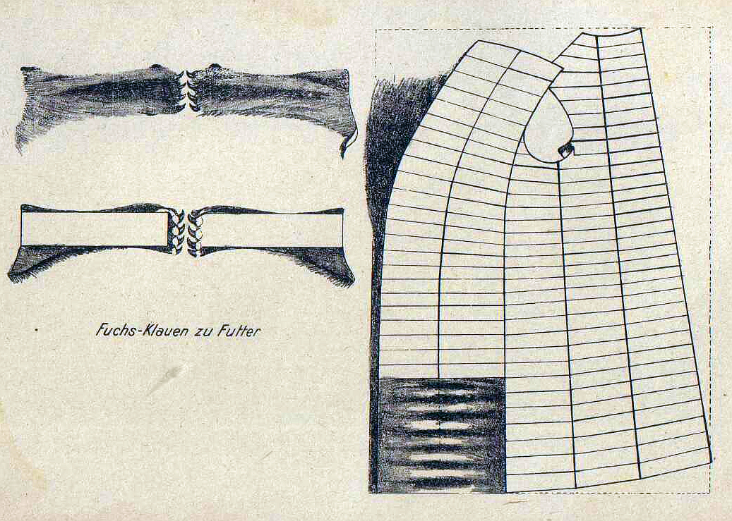 Graphics for Furriers